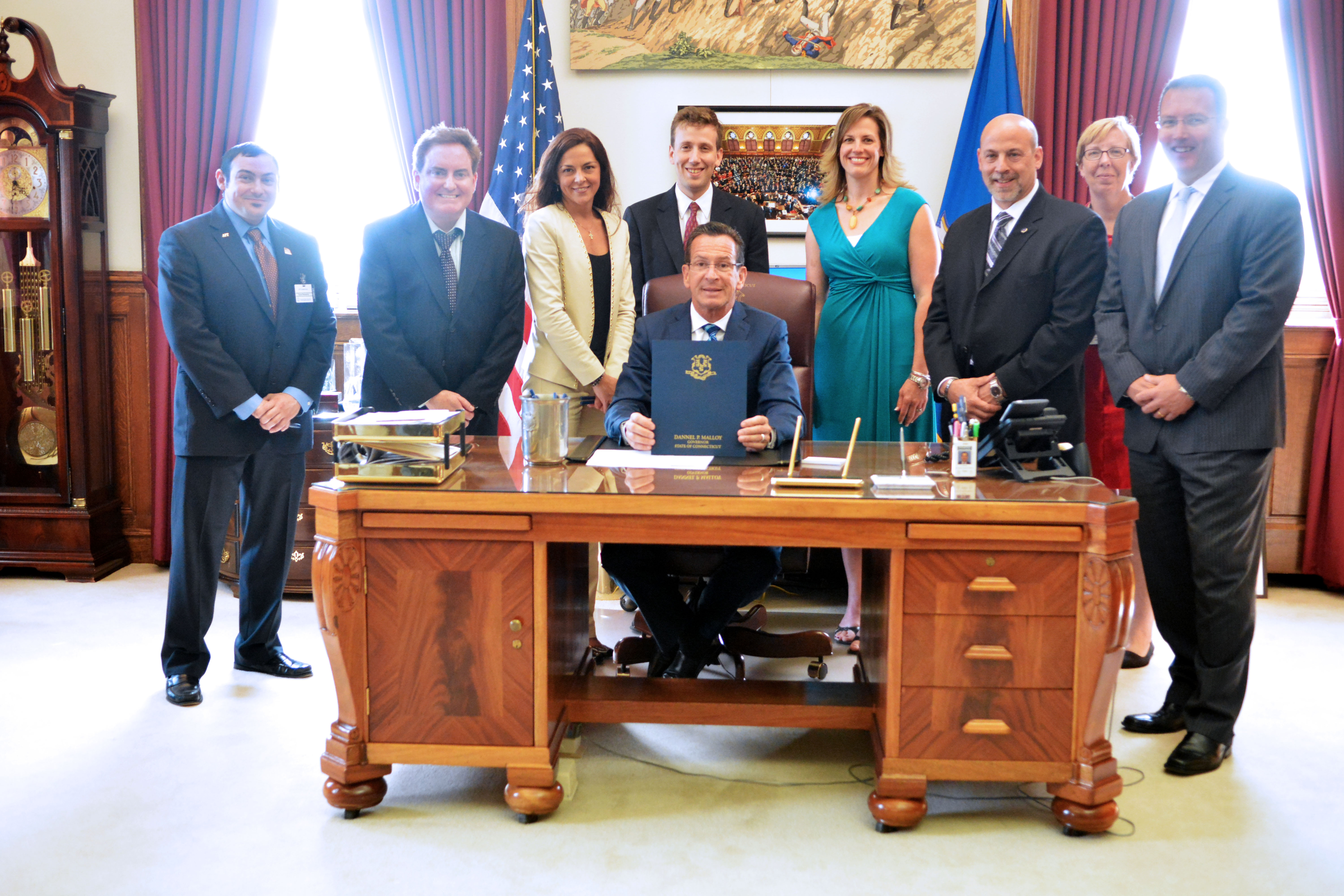 Friday, June 20, 2014 -- Governor Dannel P. Malloy held a bill signing ceremony to commemorate passage of Public Act 14-34, AA Limiting Access to Certain Information Regarding Probation Officers Under the Freedom of Information Act